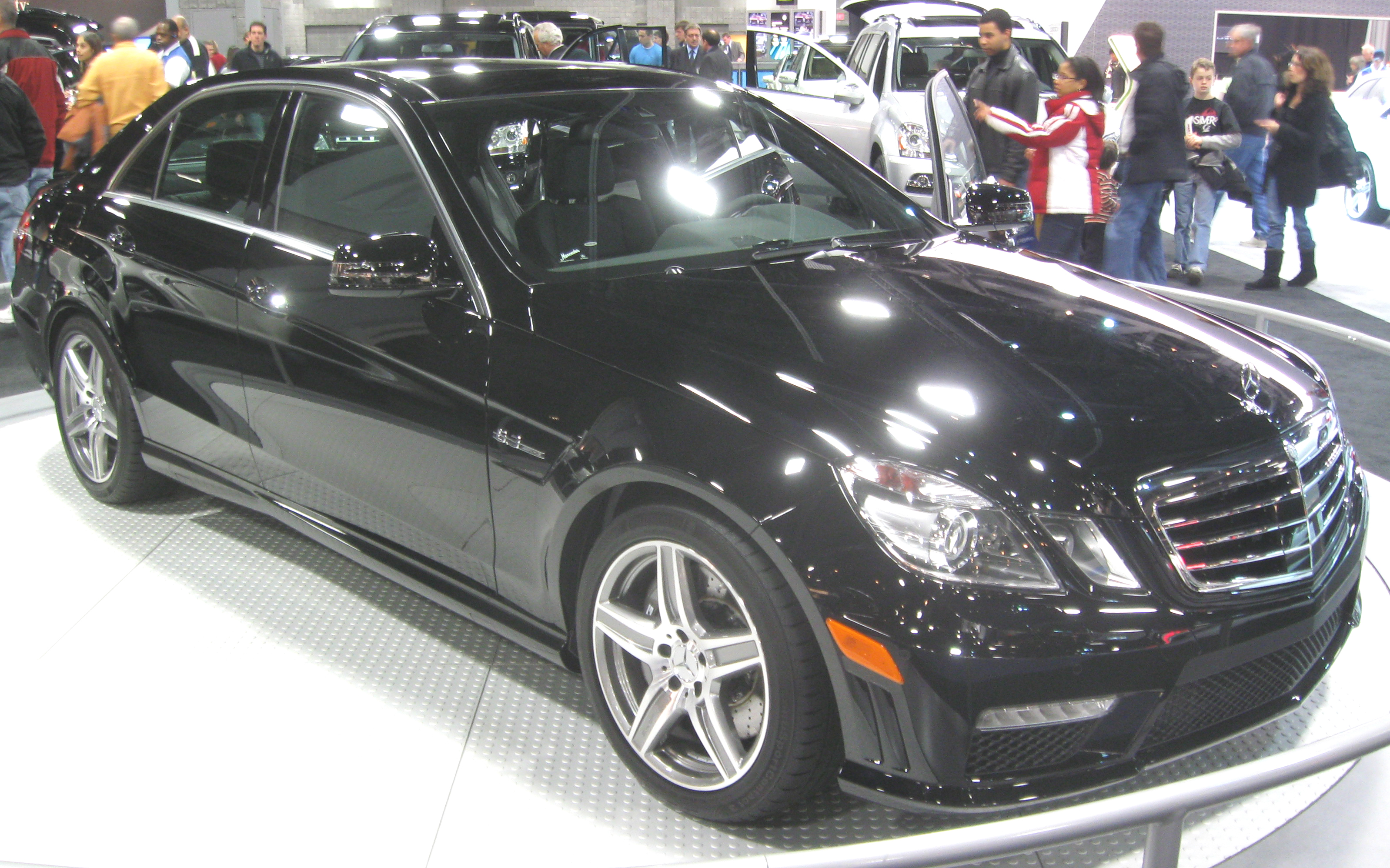 2010 Mercedes-Benz E63 photographed at the 2010 Washington Auto Show.